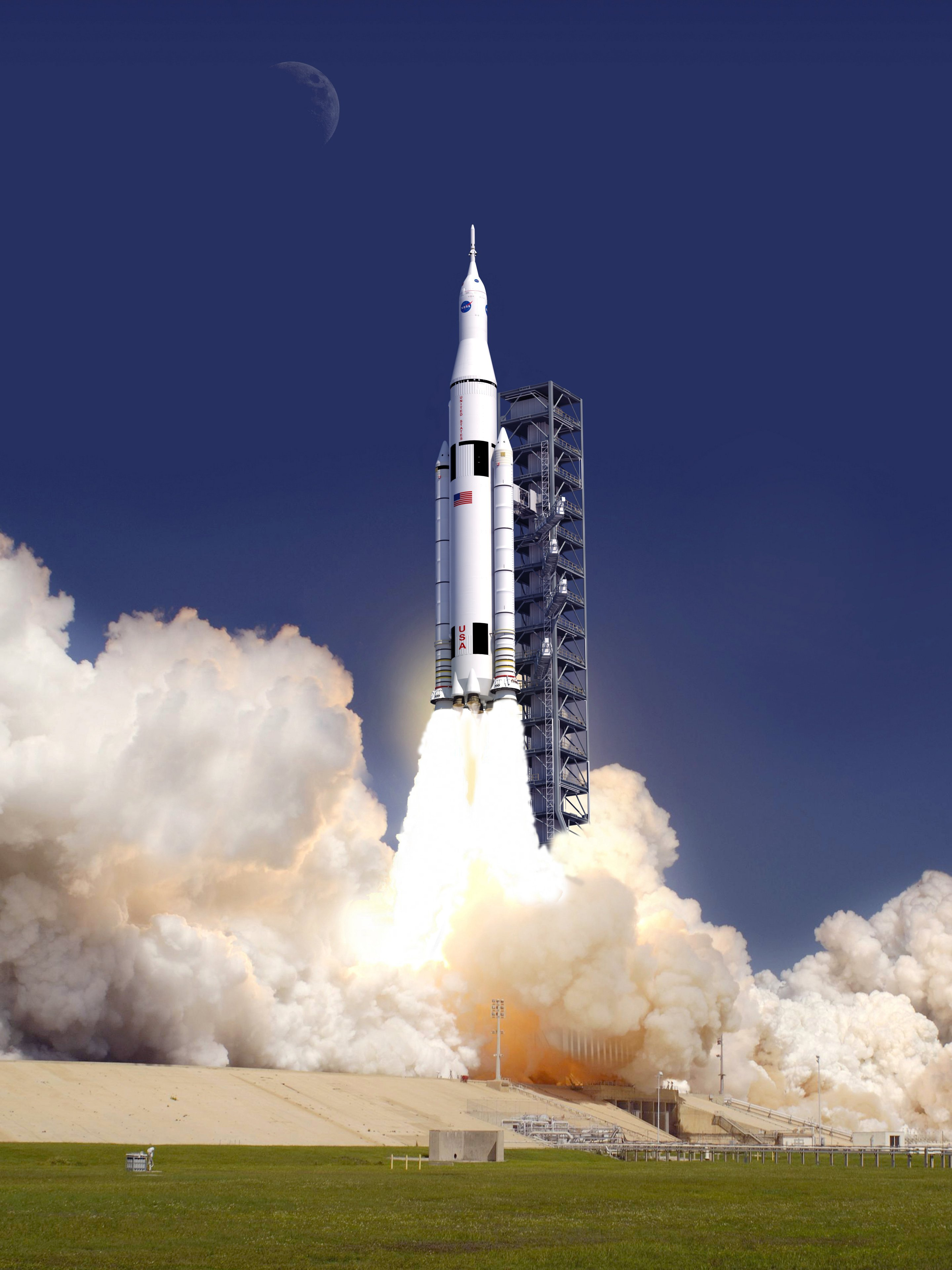 Artist concept of SLS launching.